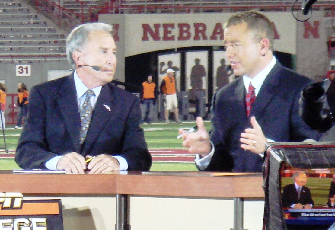 ESPN College GameDays Lee Corso (left) and Kirk Herbstreit (right) in Lincoln, Nebraska: home of the Nebraska Cornhuskers football team.